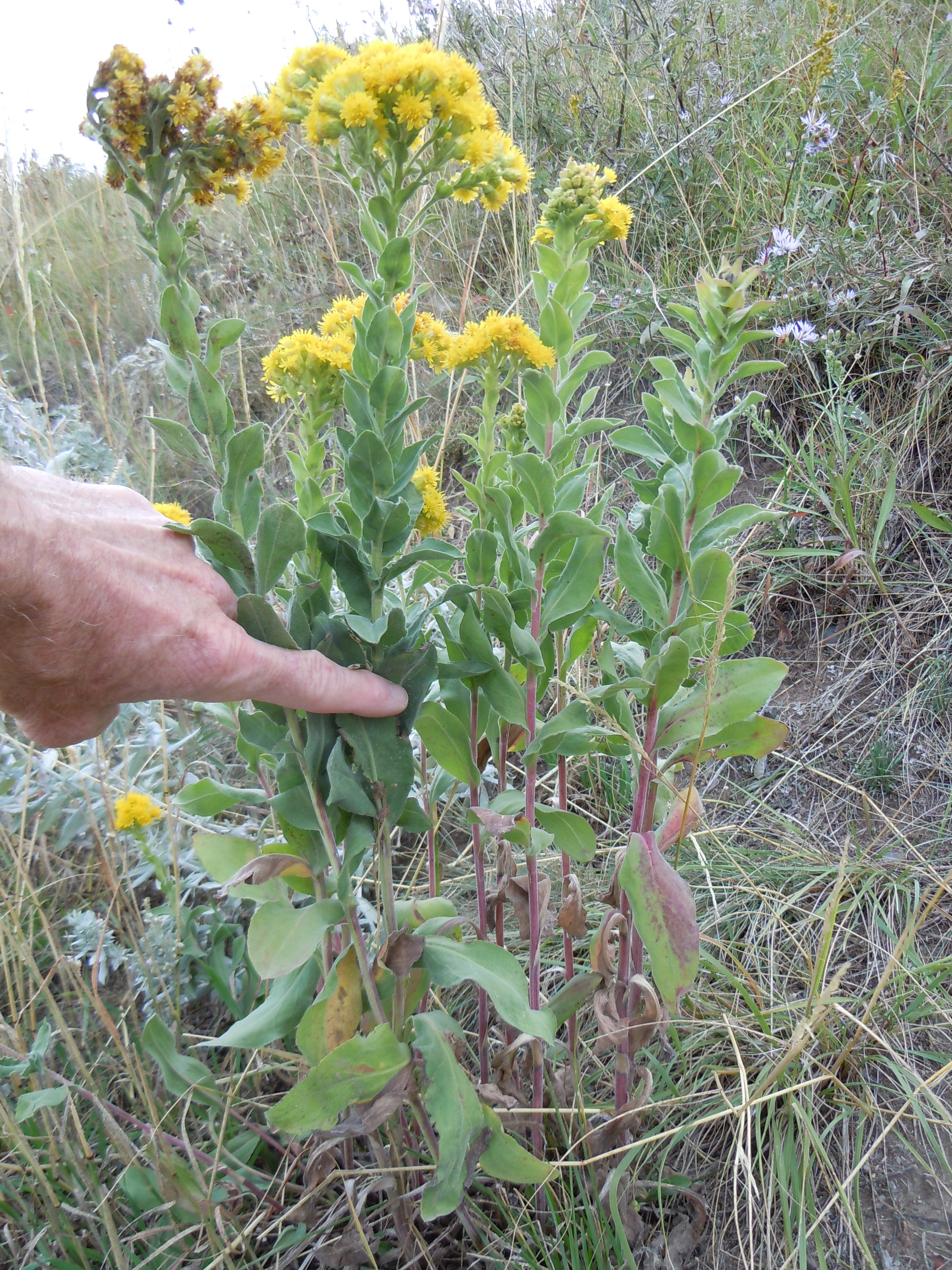 Some plants of Solidago rigida will lose the basal leaf bunch during the late season probably due to dessication.